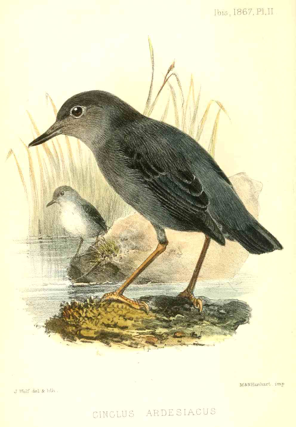 « Cinclus ardesiacus » = Cinclus mexicanus ardesiacus (Subspecies of American Dipper)